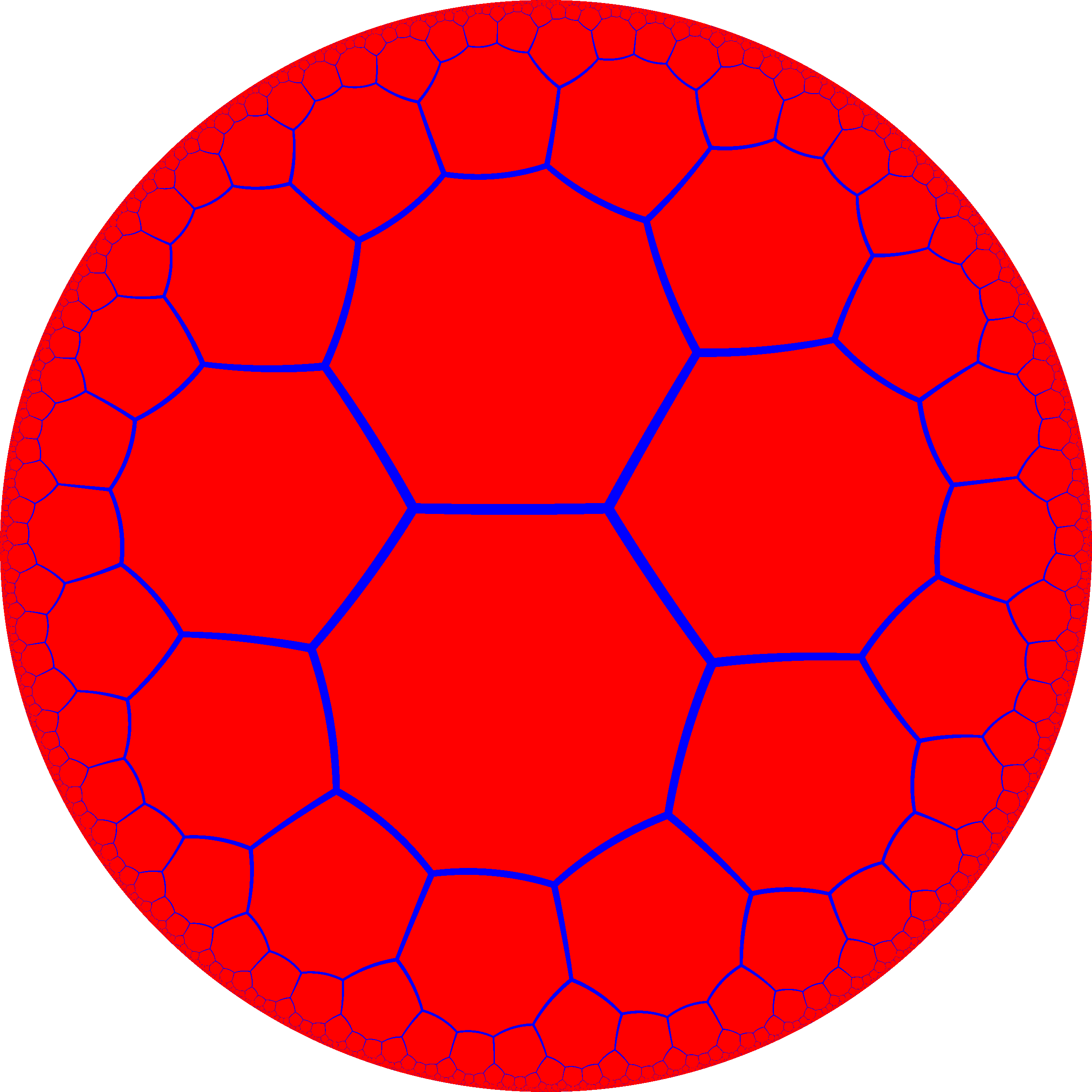 Regular tiling of hyperbolic plane by octagons, o3o8x. Generated by Python code at User:Tamfang/programs. Equivalent: Dual